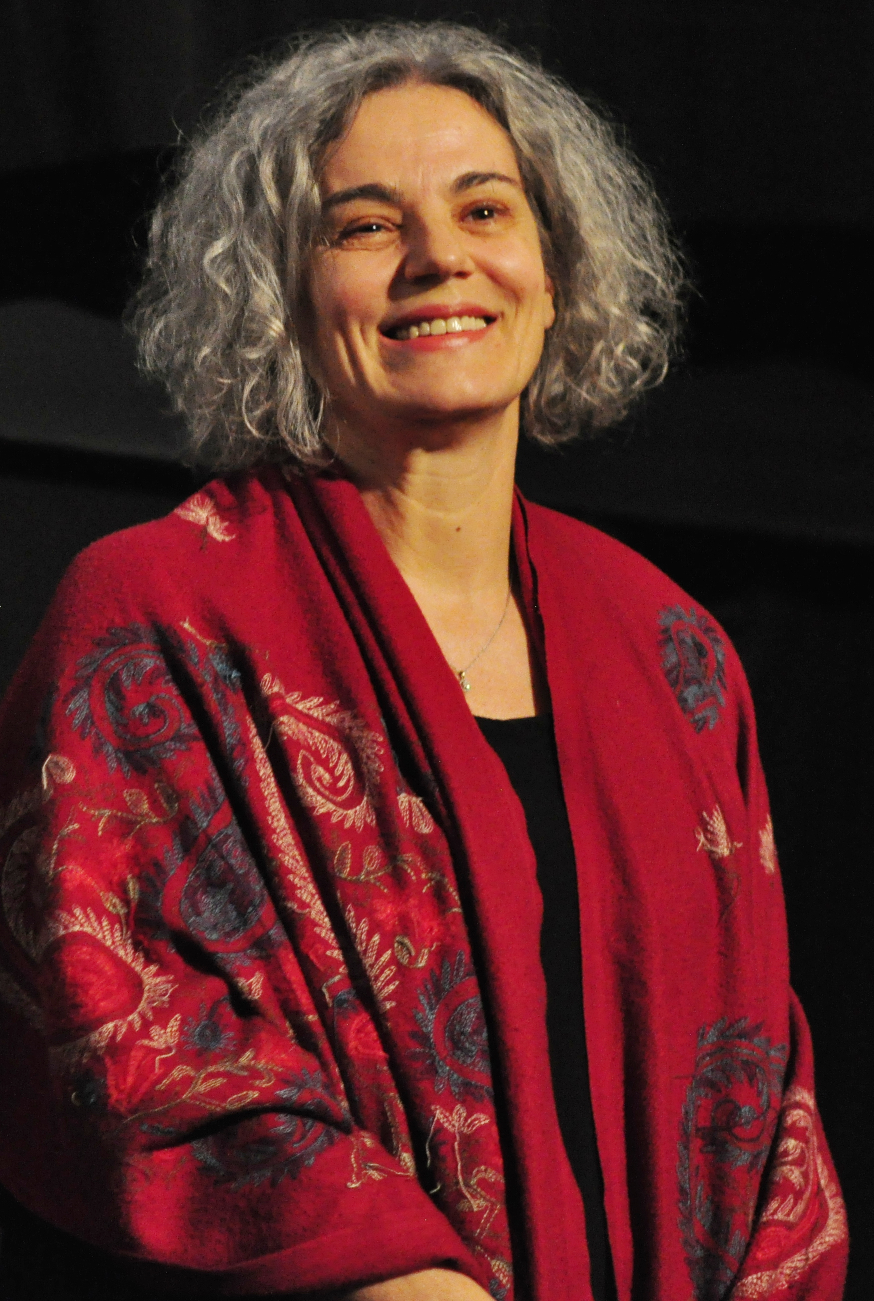 Actress Maia Morgenstern attending the Fifth Seattle Romanian Film Festival, SIFF Cinema Uptown, Seattle, Washington, U.S.